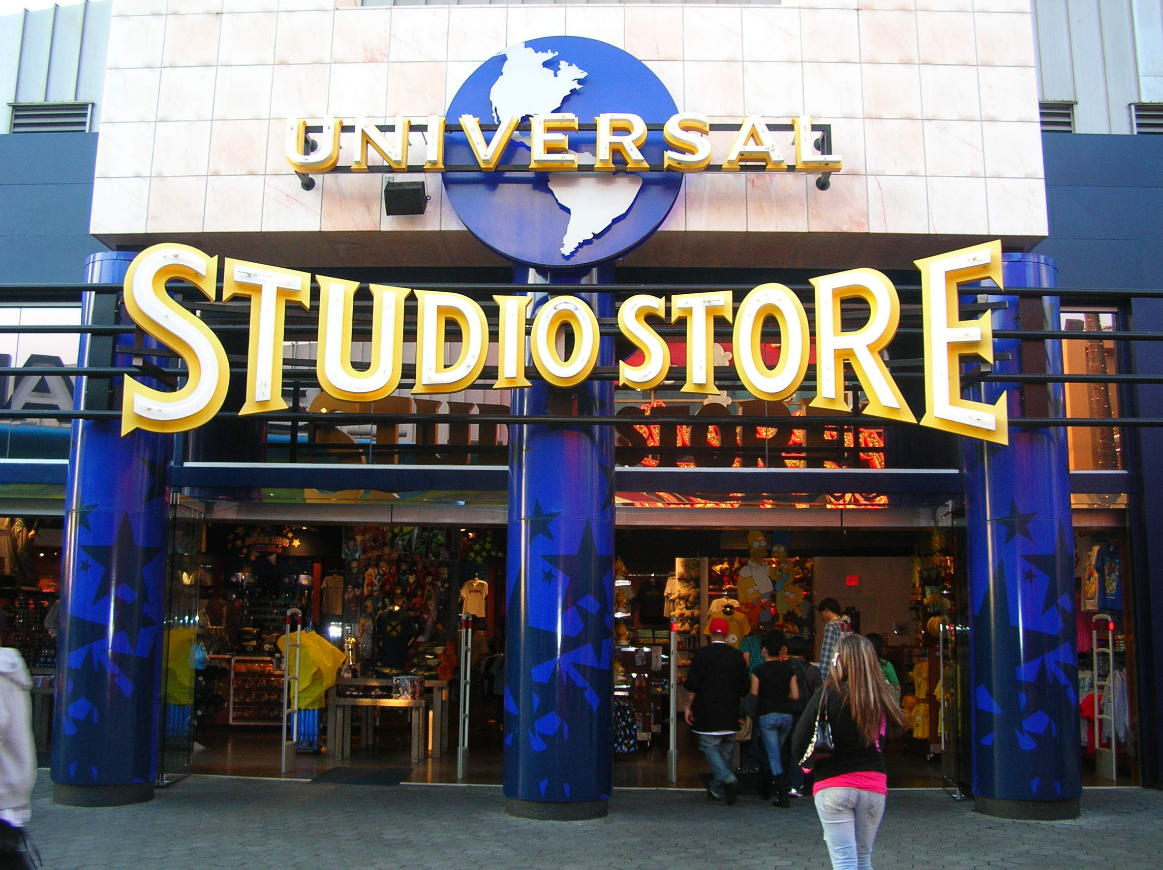 The Universal Studio Store at Universal CityWalk Hollywood.